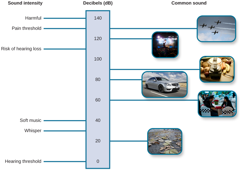 This figure provides common sounds that are very soft and sounds that are very harmful with their decibel levels provided.